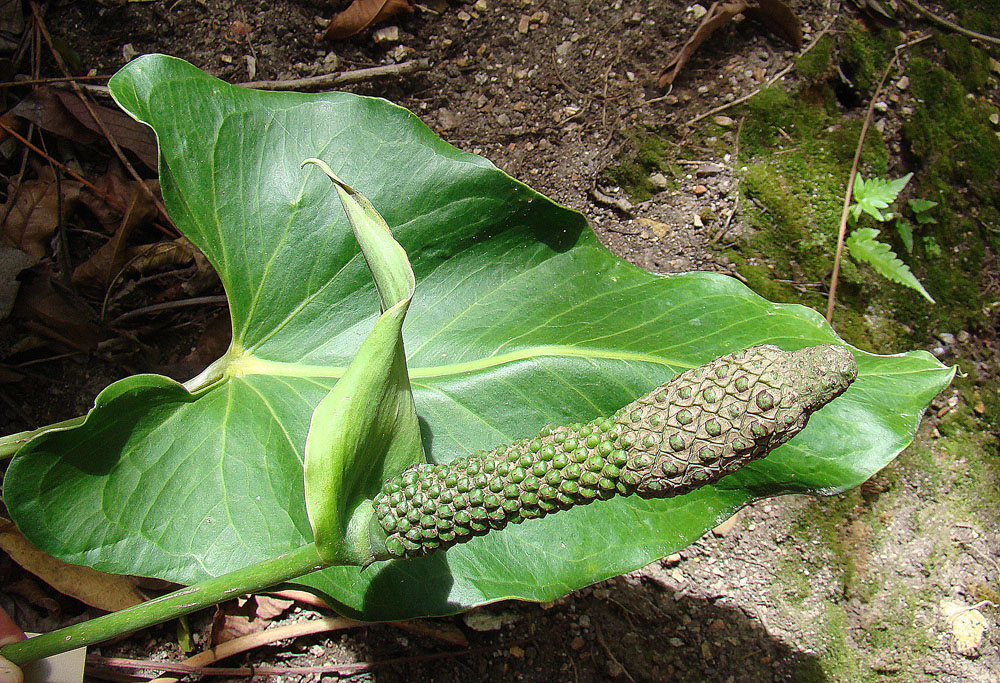 Native to Oaxaca and Chiapis Provinces of Mexico, here at the UC Berkeley Botanical Gardens. In context at